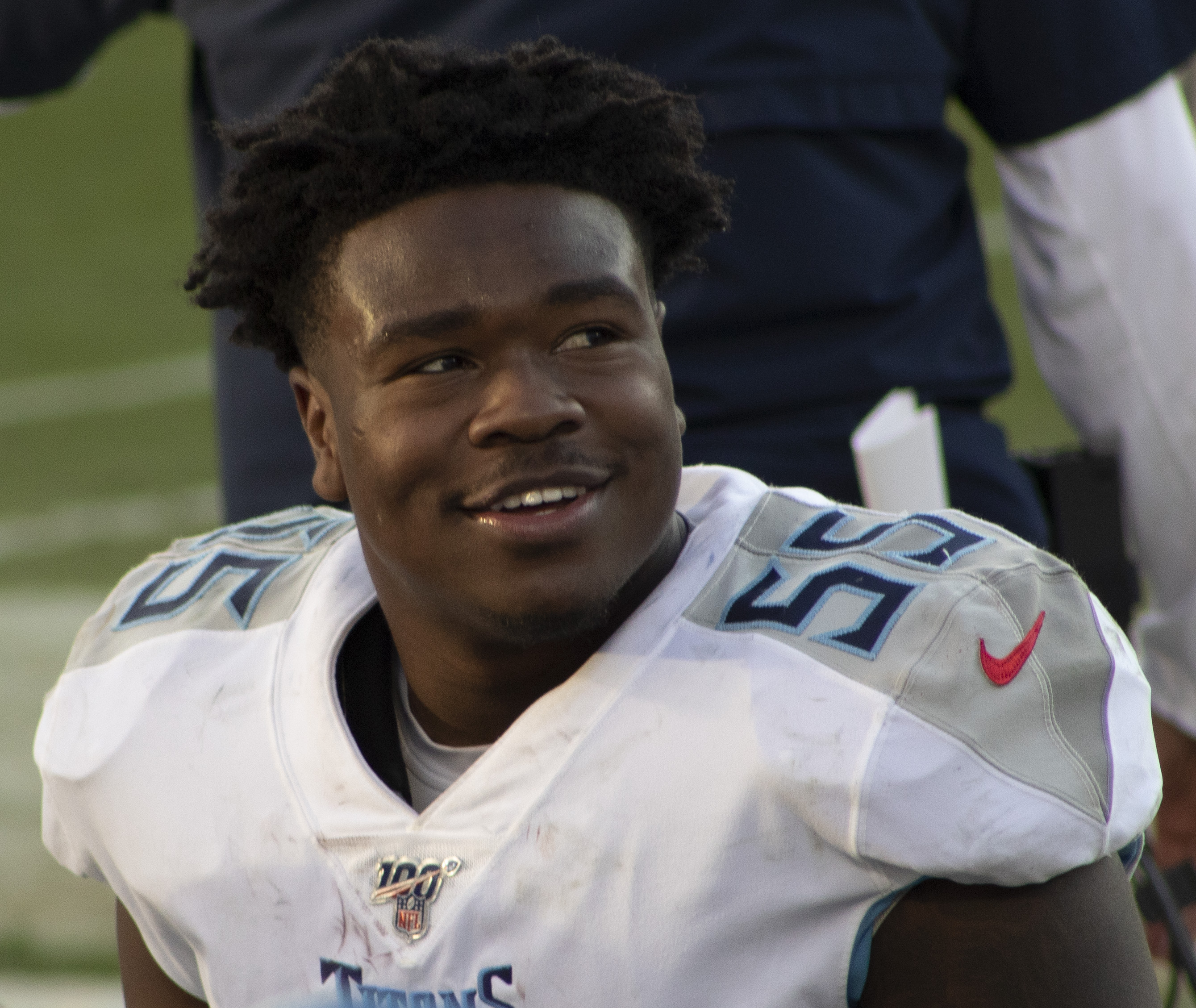 Brown with the Titans on December 8, 2019